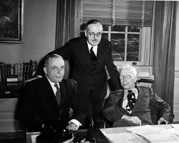 Drs. Otto Warburg, Bernardo Houssay and NIH Director Rollo E. Dyer at the National Institutes of Health. This image is held by the National Library of Medicine at .